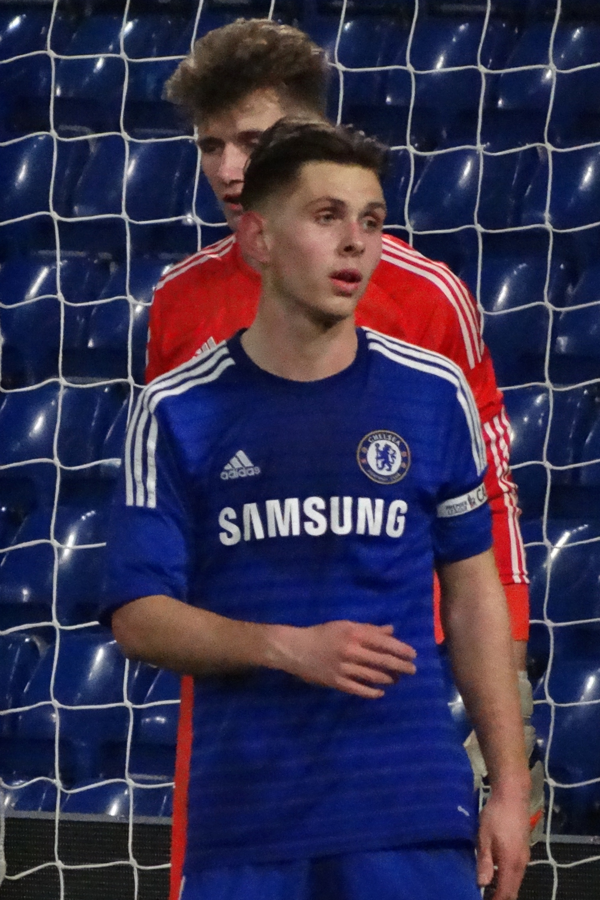 Chelsea 5 Spurs 2 (5-4 Agg)